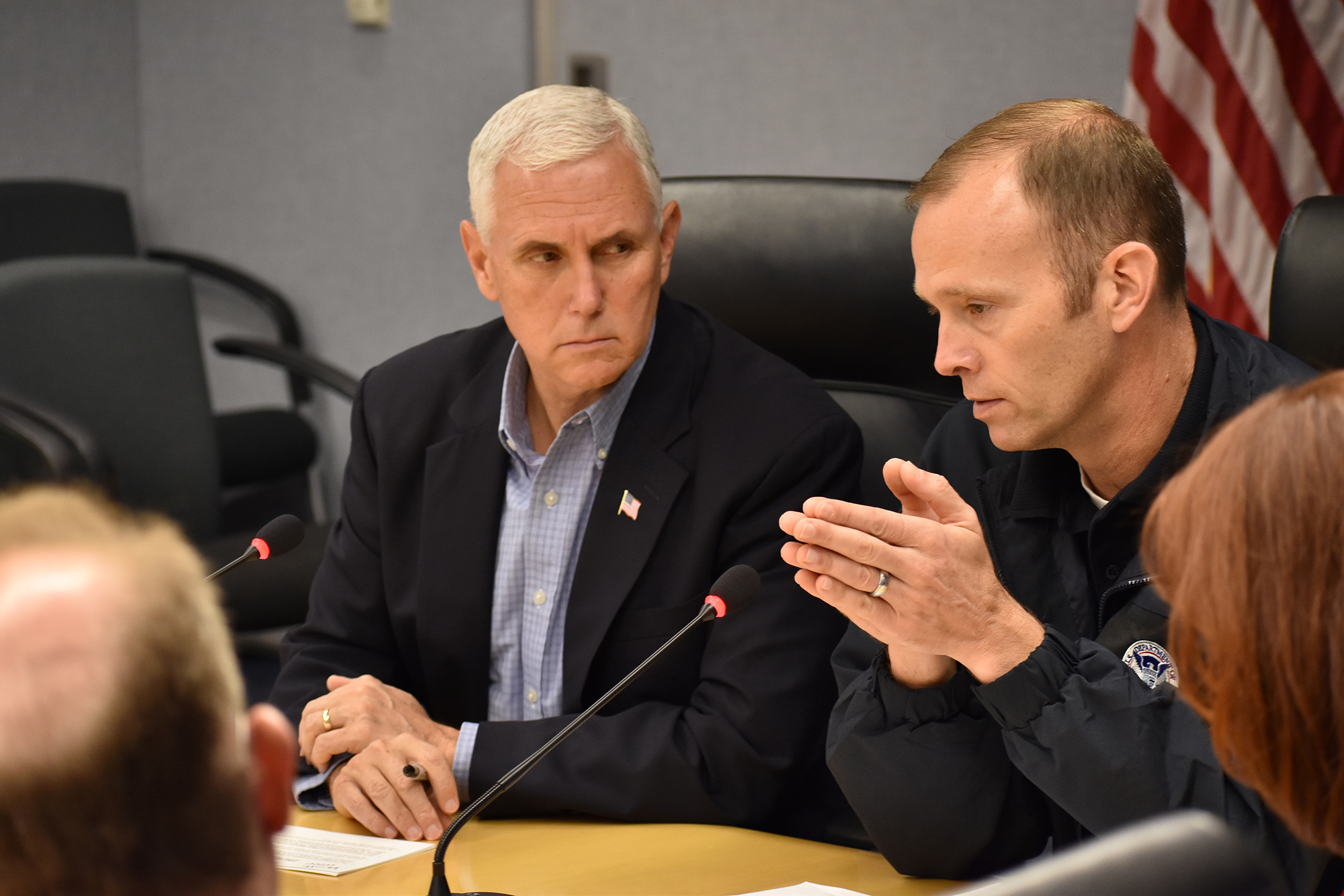 WASHINGTON, D.C., Sept. 30, 2017 - Federal Emeregency Management Agency Administrator Brock Long provides and update on the federal respone by FEMA and it's partners in Puerto Rico.